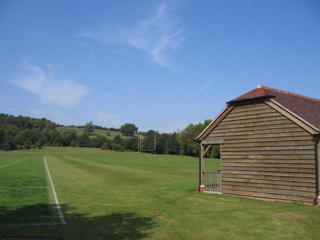 Rugby fields, Bloxham.